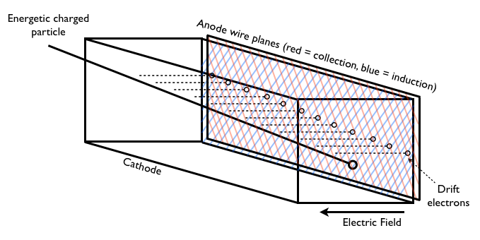 A diagram of the LArTPC design and operating principle.